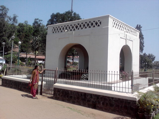 Raja Seat, a place where the Rajas of Kodagu sat and viewed the hills of Madikeri.